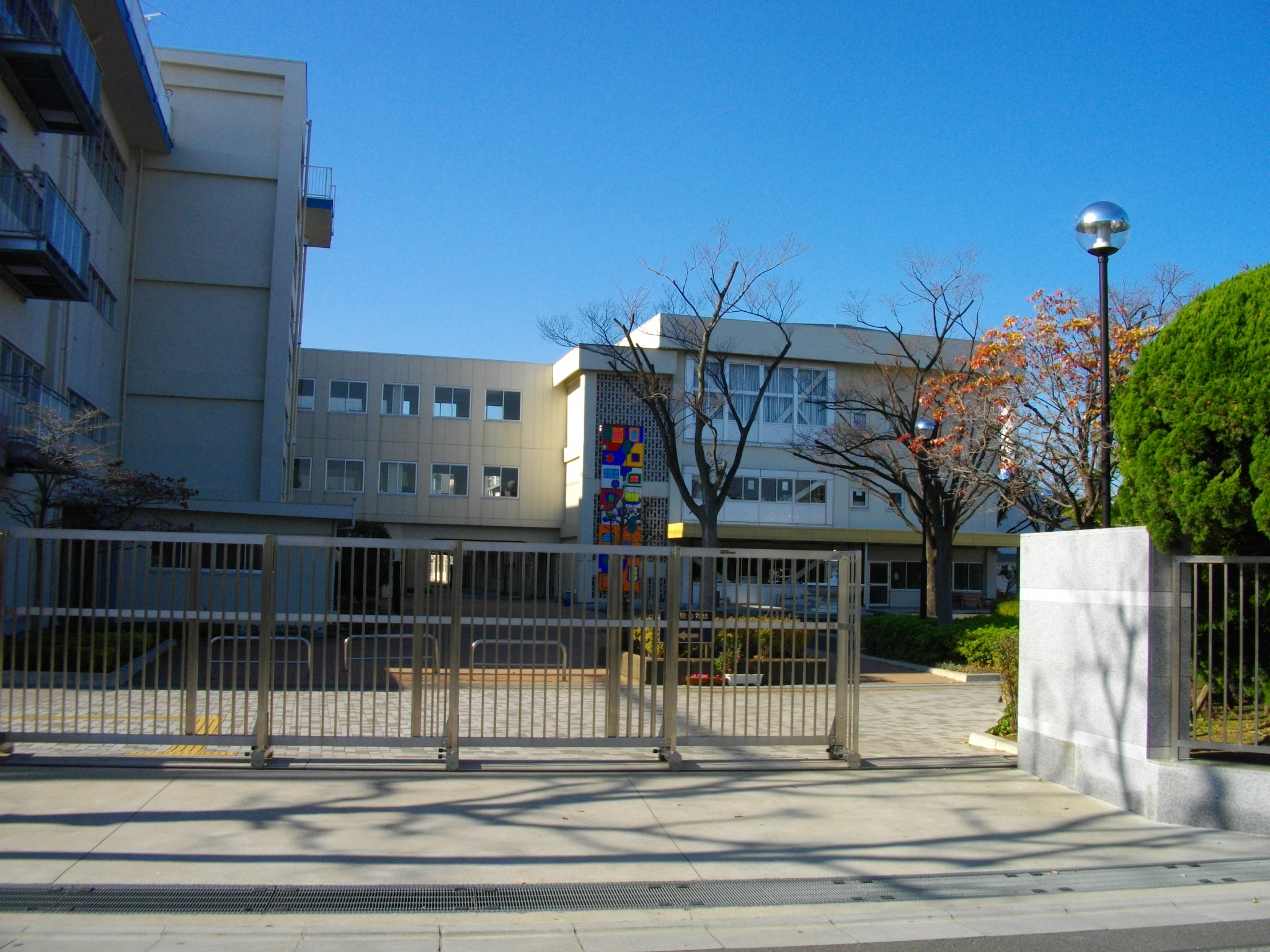 Katsushika Sogo High School